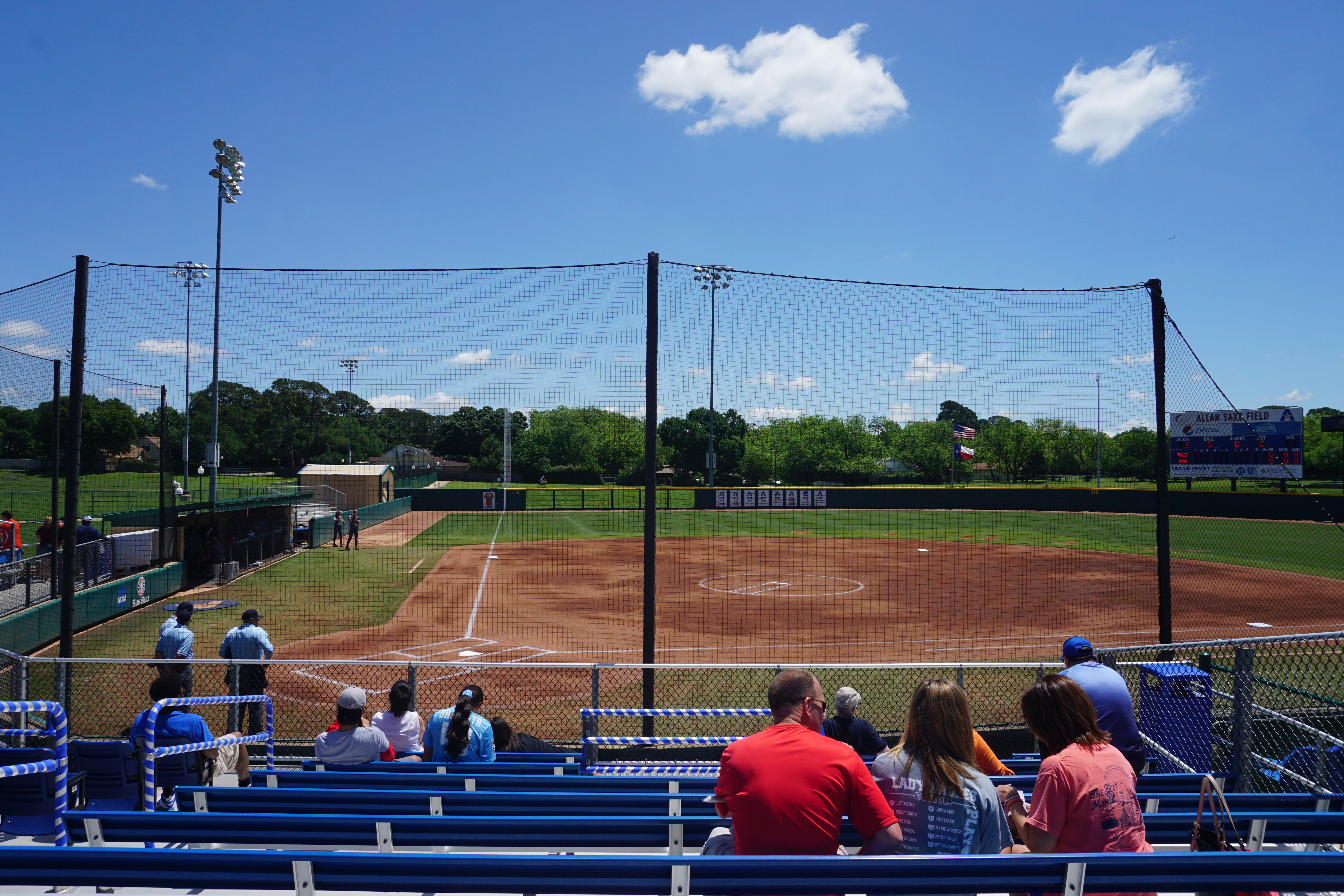 The stadium before the Texas State Bobcats vs. UT Arlington Mavericks softball game at Allan Saxe Field in Arlington, Texas (United States). UT Arlington won 8–7.